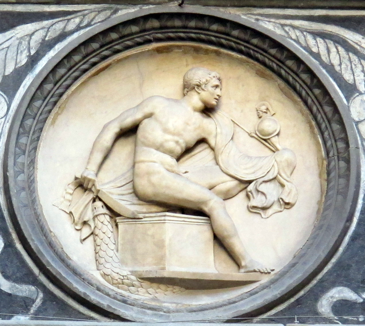 Courtyard of Palazzo Medici-Riccardi - Frieze